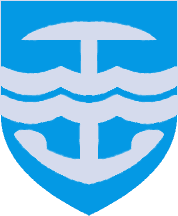 Coat of arms of Kuusalu vald, Estonia (Colors: sinine (PANTONE 285c) ja hõbehall (PANTONE 538c))